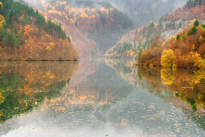 Autumn in the Rhodope mountains, southern Bulgaria.